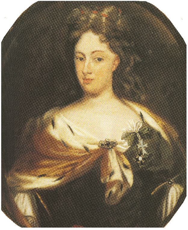 Portrait of Isabelle Charlotte of Nassau-Dietz (1692-1757), wife of Christian, Prince of Nassau-Dillenburg